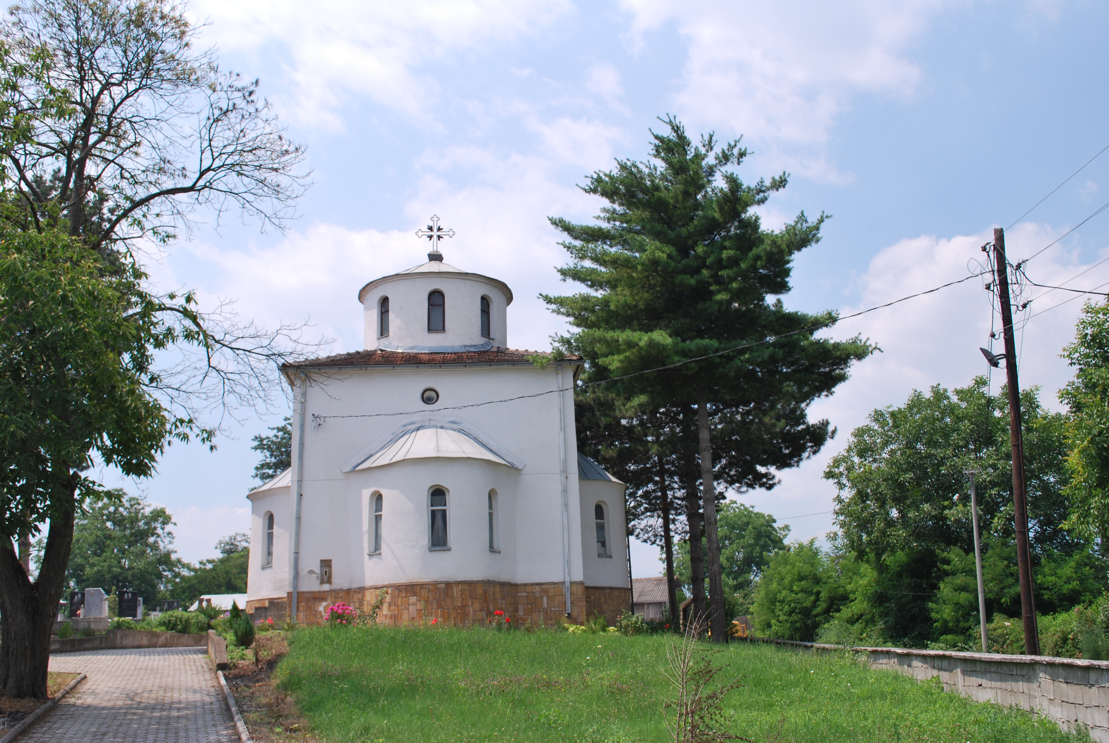 St. Theodore of Amasea Church (Theodore Tyron) in Jenčište, Macedonia